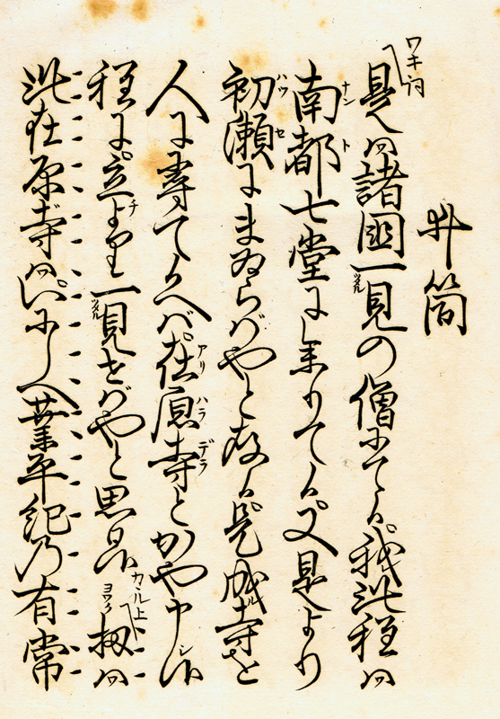 The first page of the Kanze school song book of "Izutsu". As its actual performance on the stage, it starts with the lines of Waki. The continuous dots beside Japanese letters indicate the relative duration and pitch of the song.